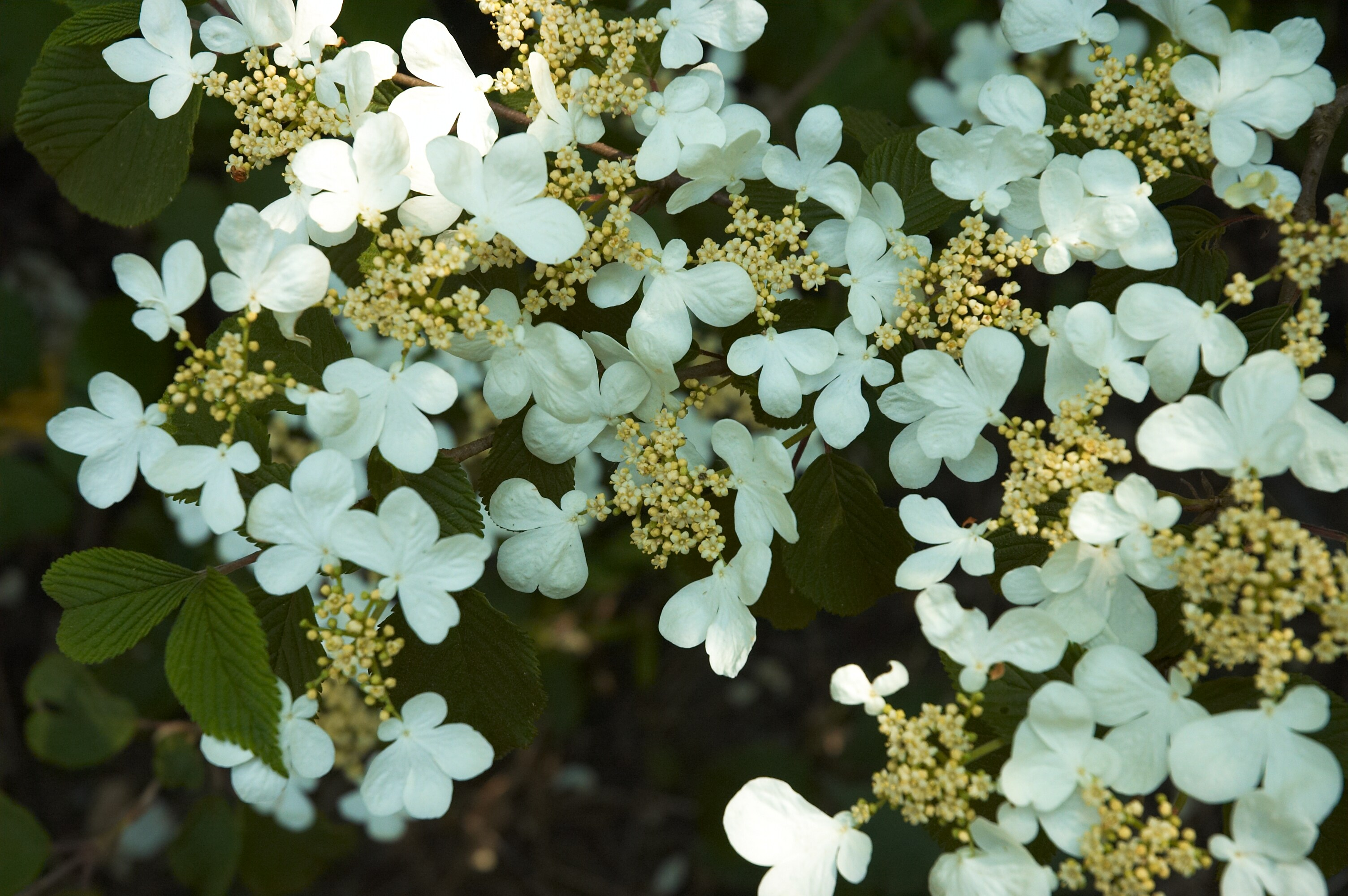 Viburnum plicatum 'Mariesii' (photo taken in Belgium)